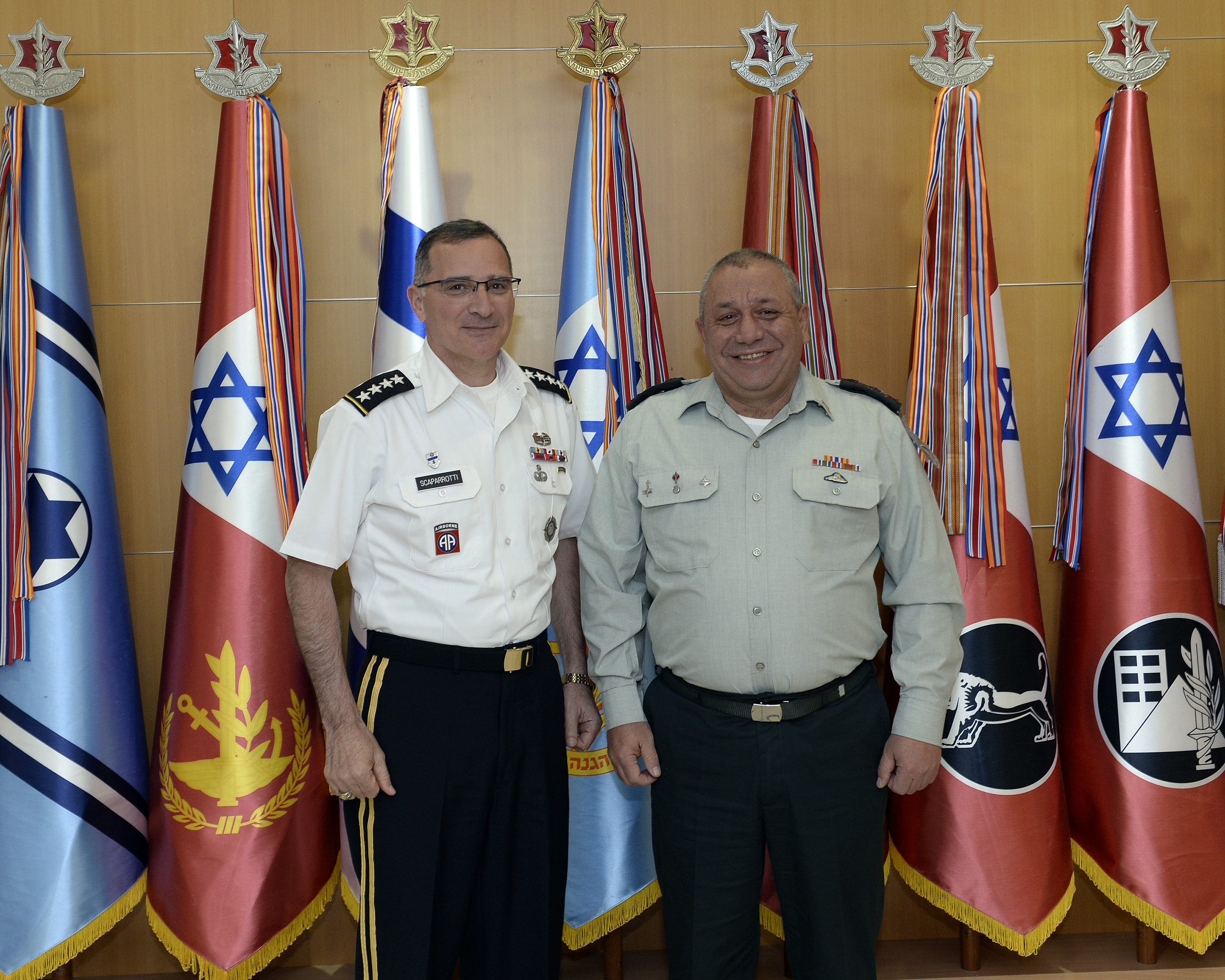 Army Gen. Curtis Scaparrotti, Commander of U.S. European Command and NATO’s Supreme Allied Commander for Europe, met Israeli Defense Forces Chief of Staff Gadi Eizenkot at the IDF headquarters in Tel Aviv. The next day Gen. Scaparrotti met Israeli Minister of Defense Avigdor Lieberman at the Ministry of Defense headquarters. Army Gen. Curtis Scaparrotti, Commander of U.S. European Command and NATO’s Supreme Allied Commander for Europe, met Israeli Defense Forces Chief of Staff Gadi Eizenkot at the IDF headquarters in Tel Aviv. The next day Gen. Scaparrotti met Israeli Minister of Defense Avigdor Lieberman at the Ministry of Defense headquarters.